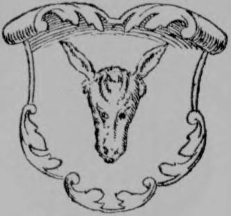 Coat of arms Półkozic from Herbarz Ambrożego